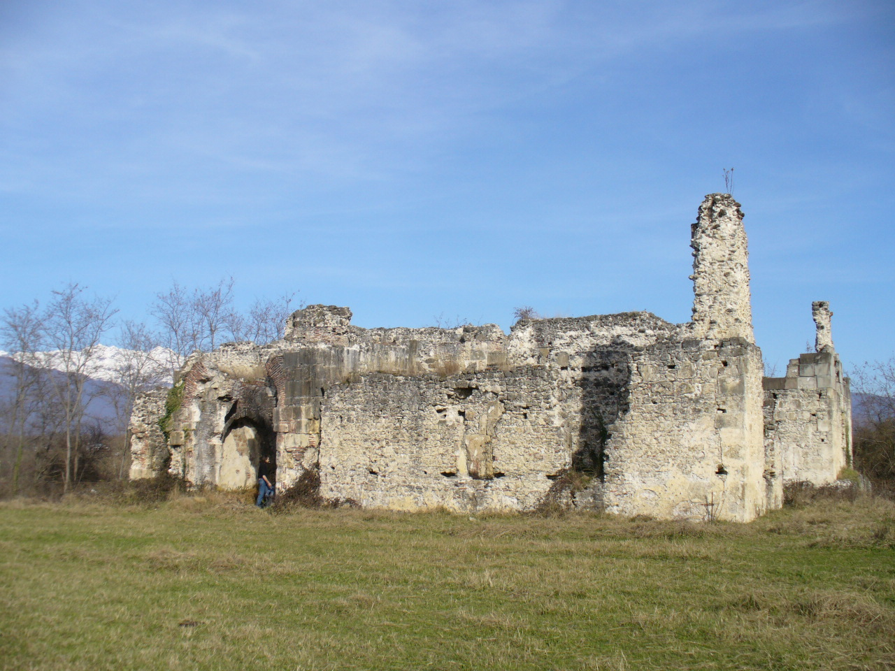 Ruins of the palace of the Chachba princes in the village of Lykhny, Abkhazia